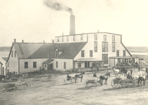 Butter factory in Bouctocuhe, New Brunswick.